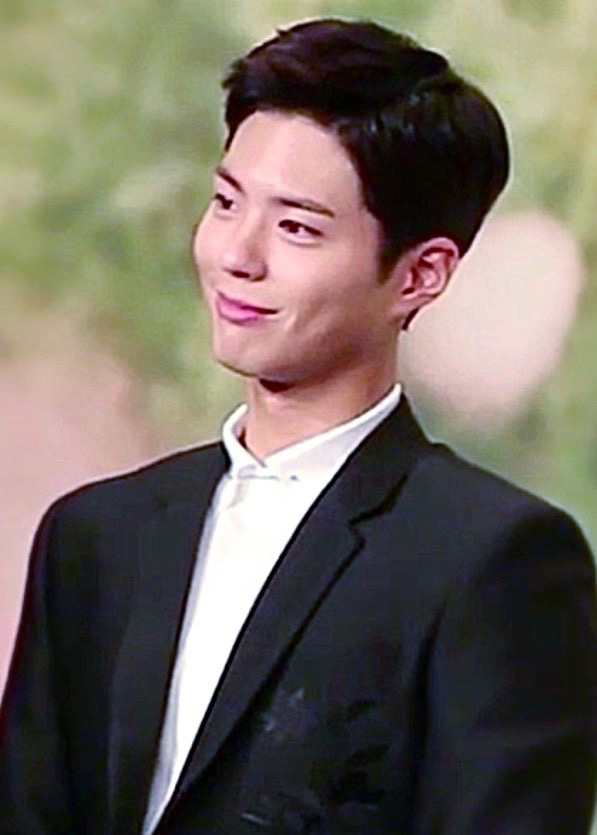 Press conference for Love in the Moonlight